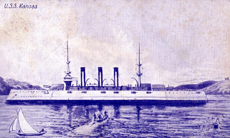 Postcard: U.S.S. Kansas, postmarked 1908 "Postmarked 20 oct 1908. Addressed to Miss B Powell. Rhine St, St. Leonards, Glenelg, SA. The USS Kansas was part of goodwill tour of sixteen US battleships led by Admiral Sperry in his flagship USS Connecticut, which visited Sydney and Melbourne, Australia." Source: Webshots Web site; "Old Postcards of Australian Origin" (description) (image)